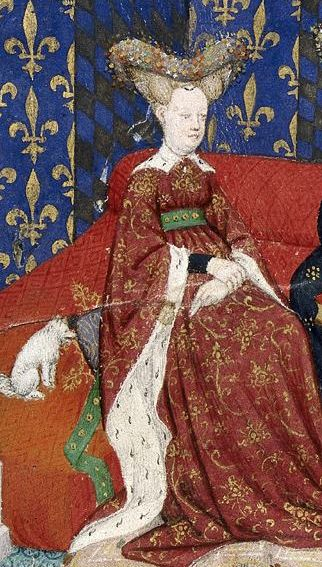 Detail of a presentation miniature with Christine de Pisan presenting her book to queen Isabeau of Bavaria. Illuminated miniature from The Book of the Queen (various works by Christine de Pizan), BL Harley 4431. Cropped from File:Christine de Pisan and Queen Isabeau (2).jpg